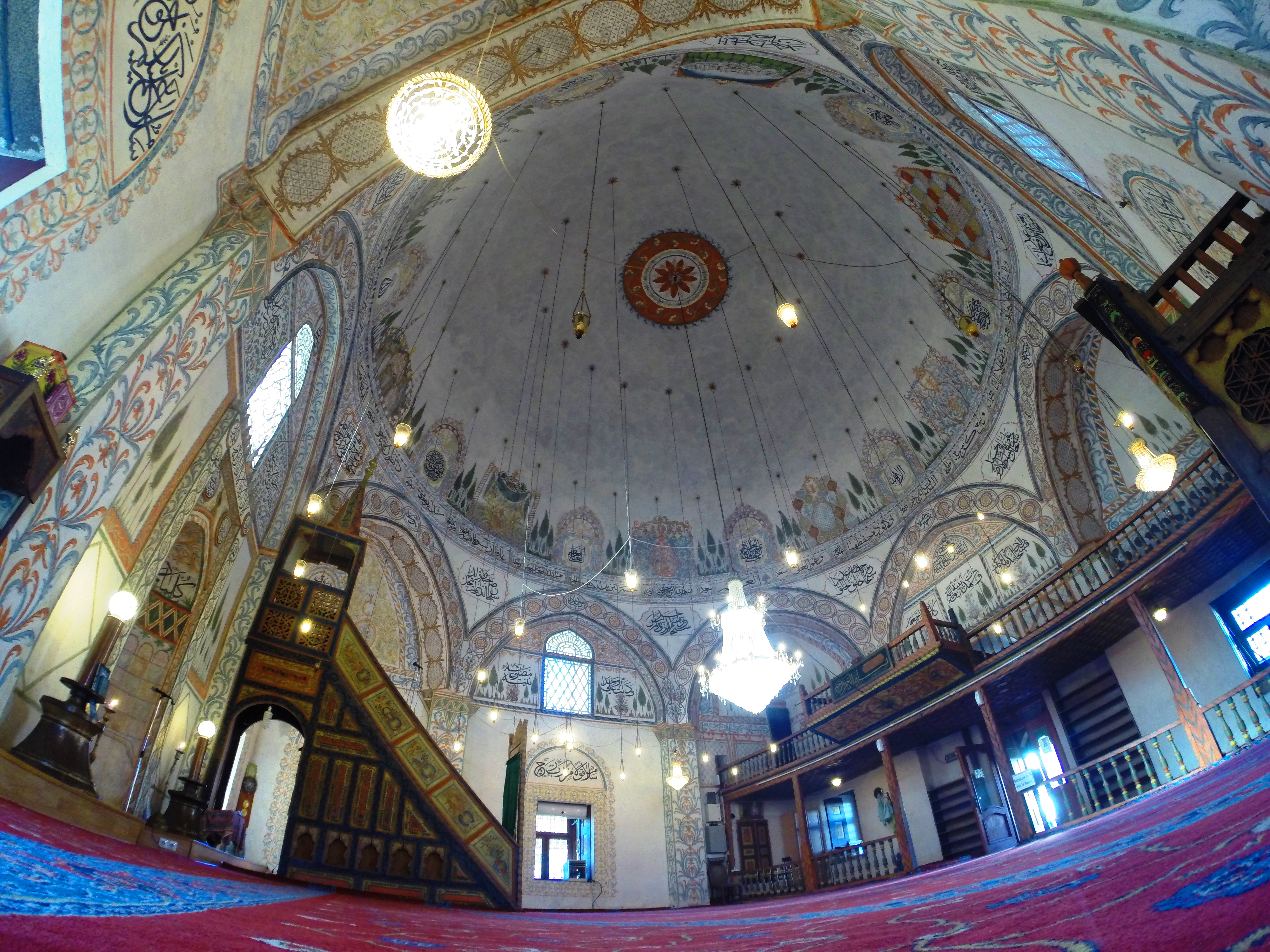 The Hadum Mosque built in 1594/95. Next to it was built the library which was bigger than mosque and next to the library the school. Sylejman Hadum Aga, besides this complex , built , in the nearness a " muvaki hane " an object for measuring the time and for determining the calendar , a " hamam " ( public bath) a, " han " ( inn ) and some shops that represent the nucleus of the " Çarshia e Madhe " ( Big Bazaar )